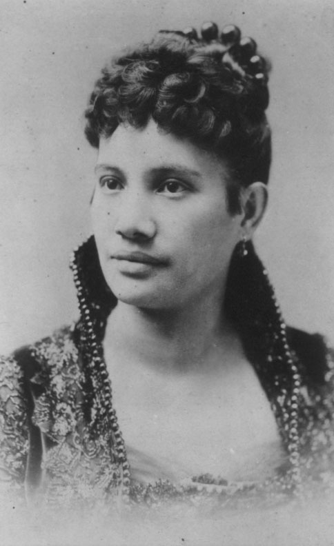 Charlotte Kahaloipua Hanks ʻIaukea (September 9, 1856 – November 17, 1939), daughter of Akini Tai Hoon and Frederick Leslie Hanks; married Curtis P. Iaukea. She was the granddaughter of Wong Tai-hoon or Tyhune and Wahinekapu.